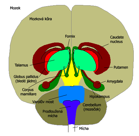 Diagram showing locations of several important parts of the human brain, as viewed from the front.